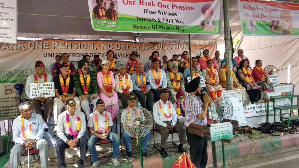 OROP-RS-JM 2 Protest